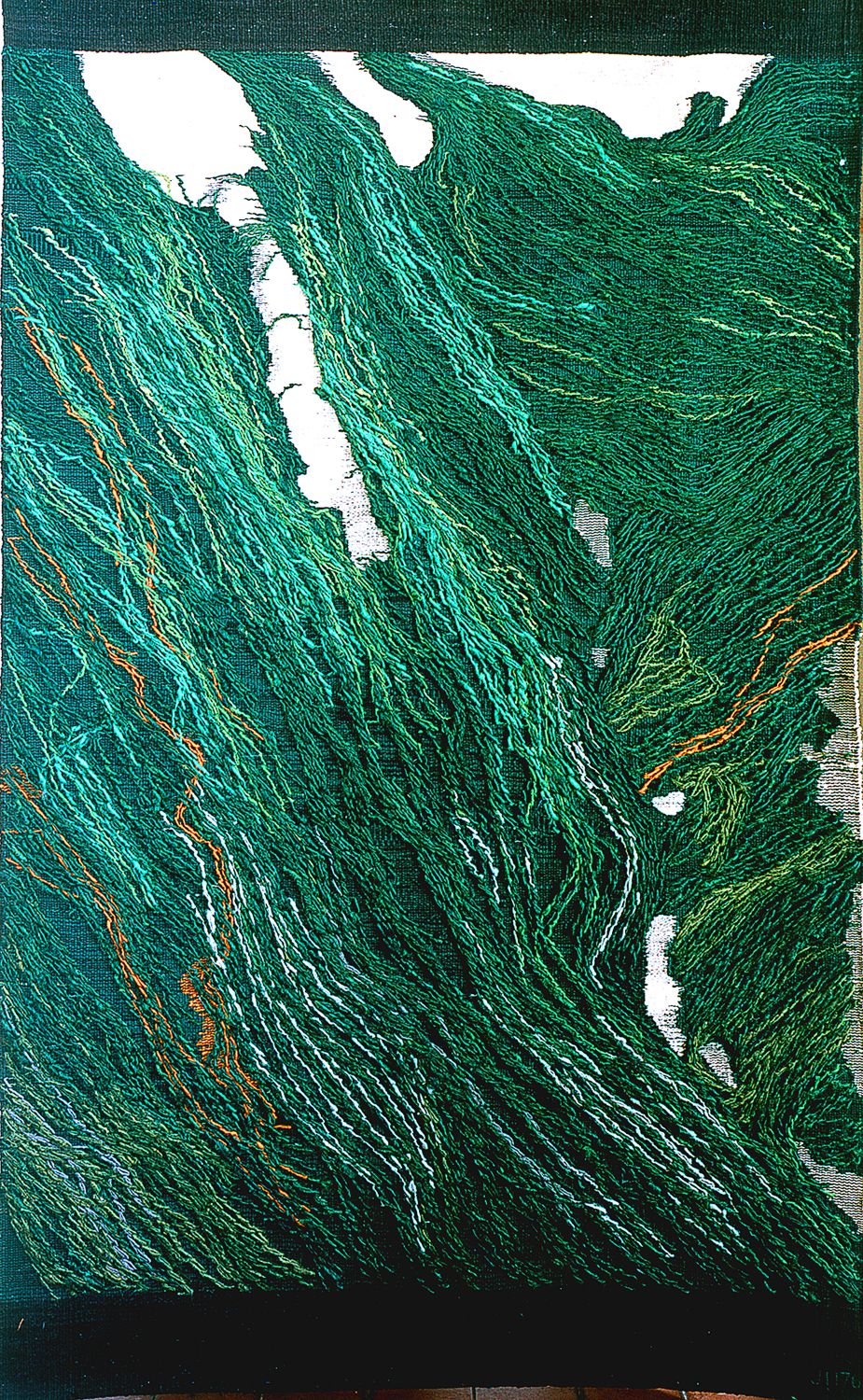 Hand-woven tapestry Gesture of green (1976), 270 x 140 cm, cotton (warp) and wool (weft)